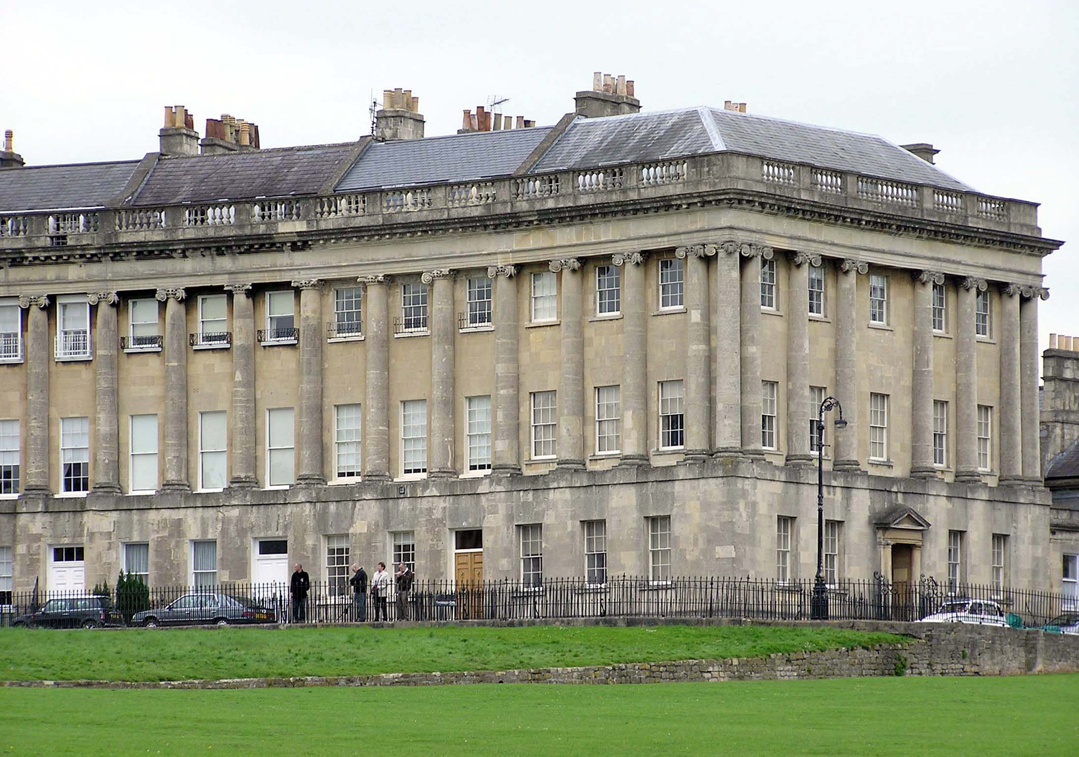 The right hand end of Royal Crescent, Bath, England.